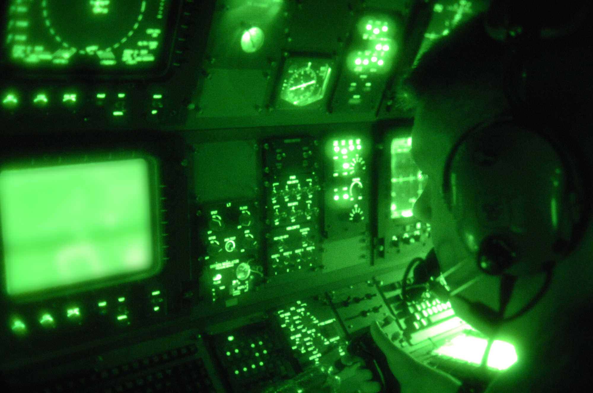 A 4th Special Operations Squadron sensor operator performs pre-flight system checks before take-off on an AC-130U Spooky gunship at Hurlburt Field, Florida, August 6, 2007.